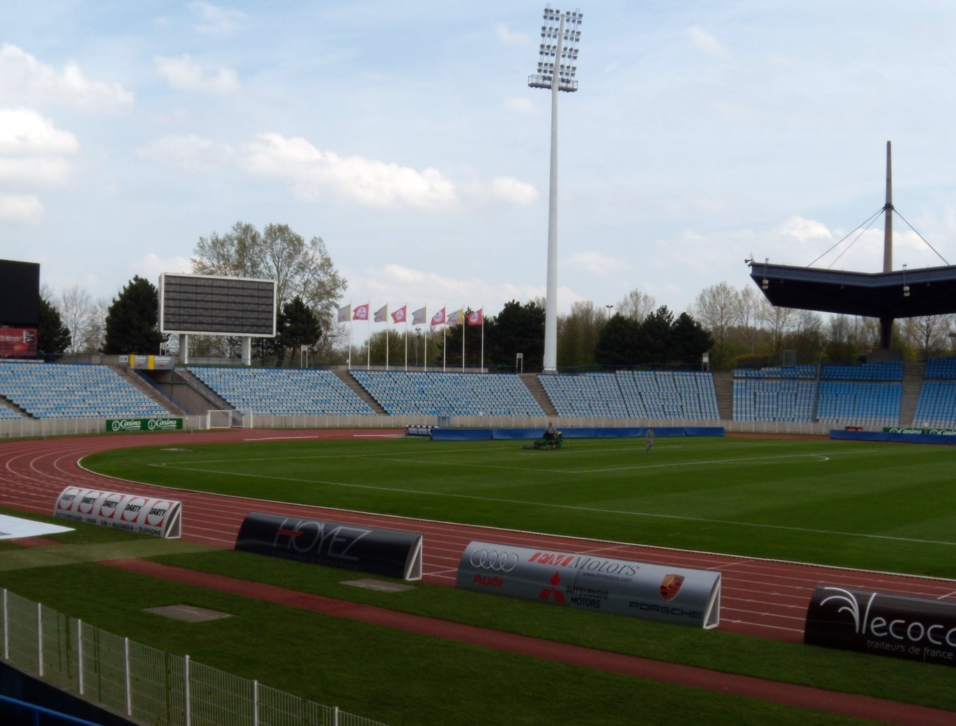 Stadium Nord of Villeneuve d'Ascq, France